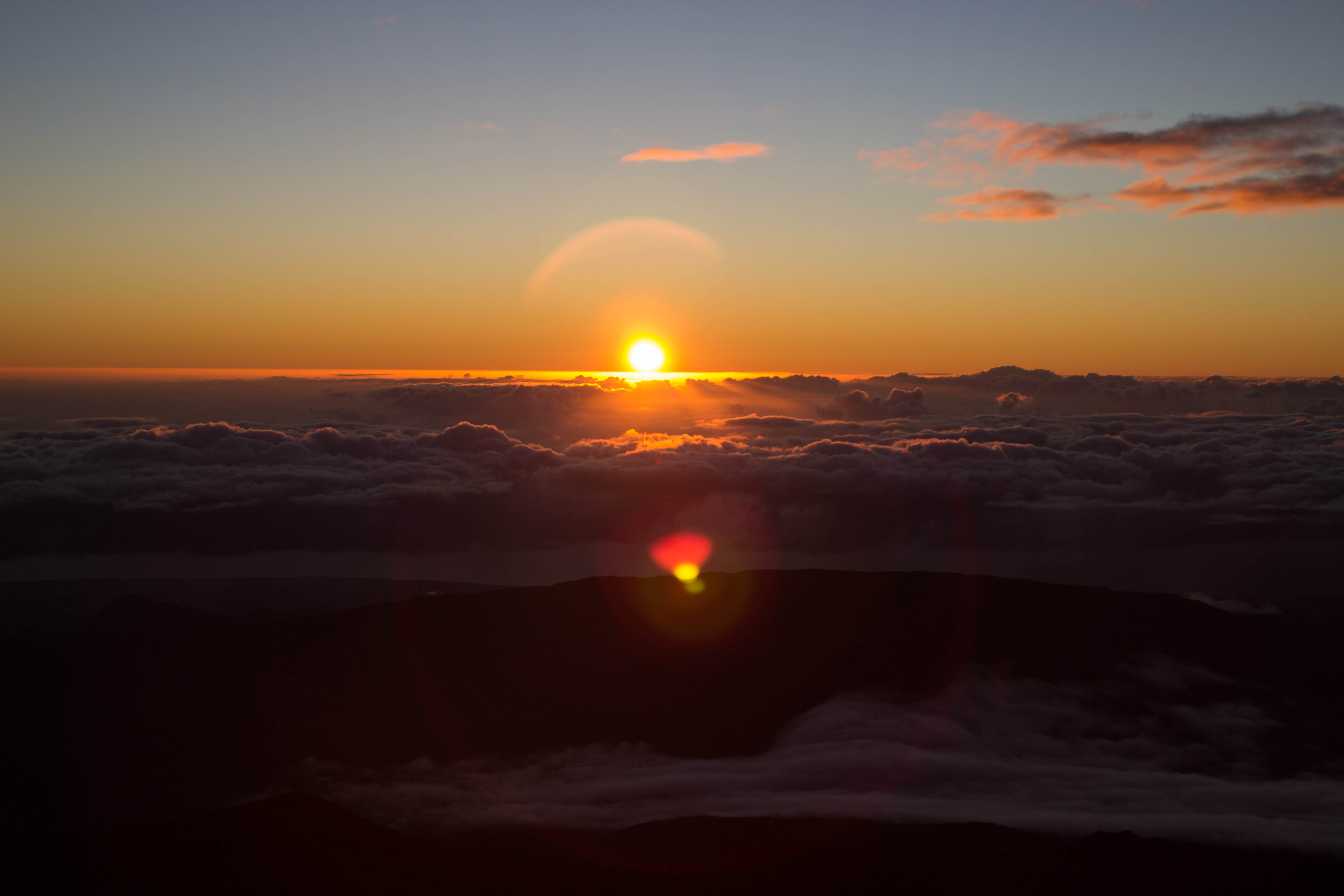 The sunrise as seen from the top of the Piton Des Neiges.